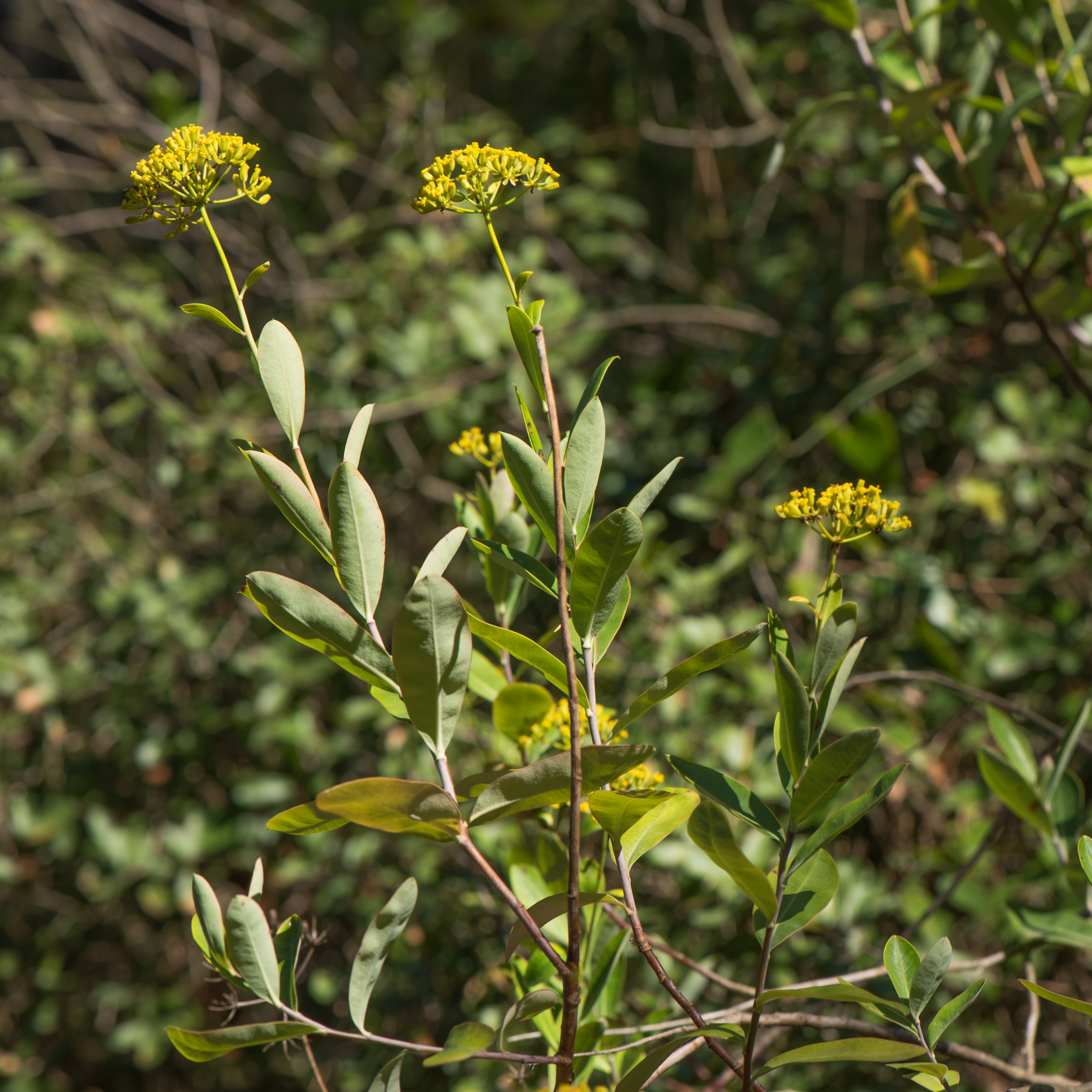 Bupleurum fruticosum.